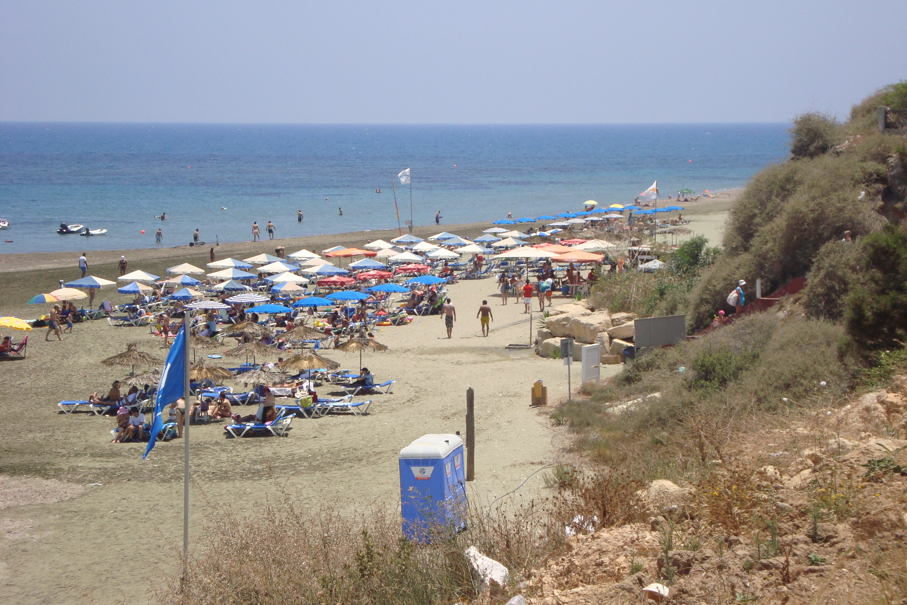 cosmopolitan Faros beach in Pervolia village in Larnaca Republic of Cyprus